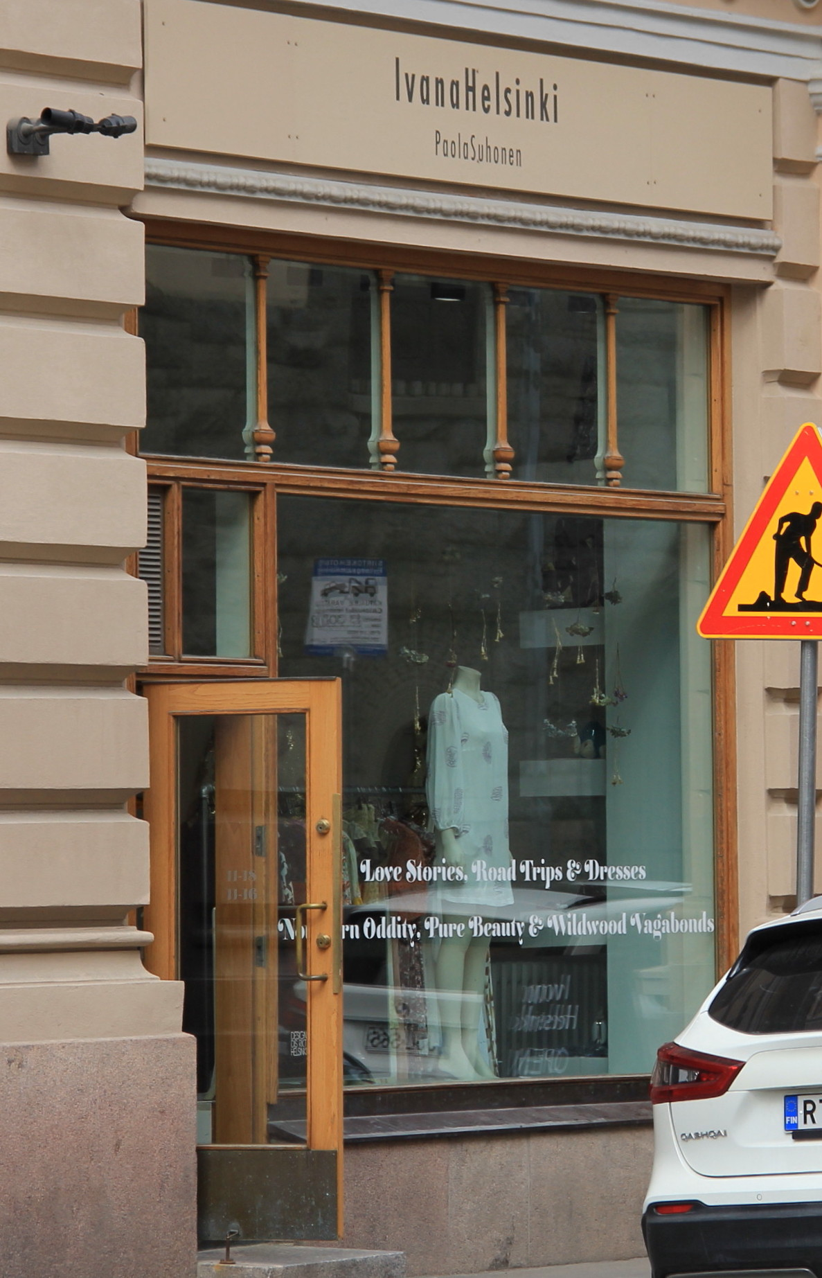 Ivana Helsinki Paola Suhonen flagship store, Uudenmaankatu, Helsinki, Finland.